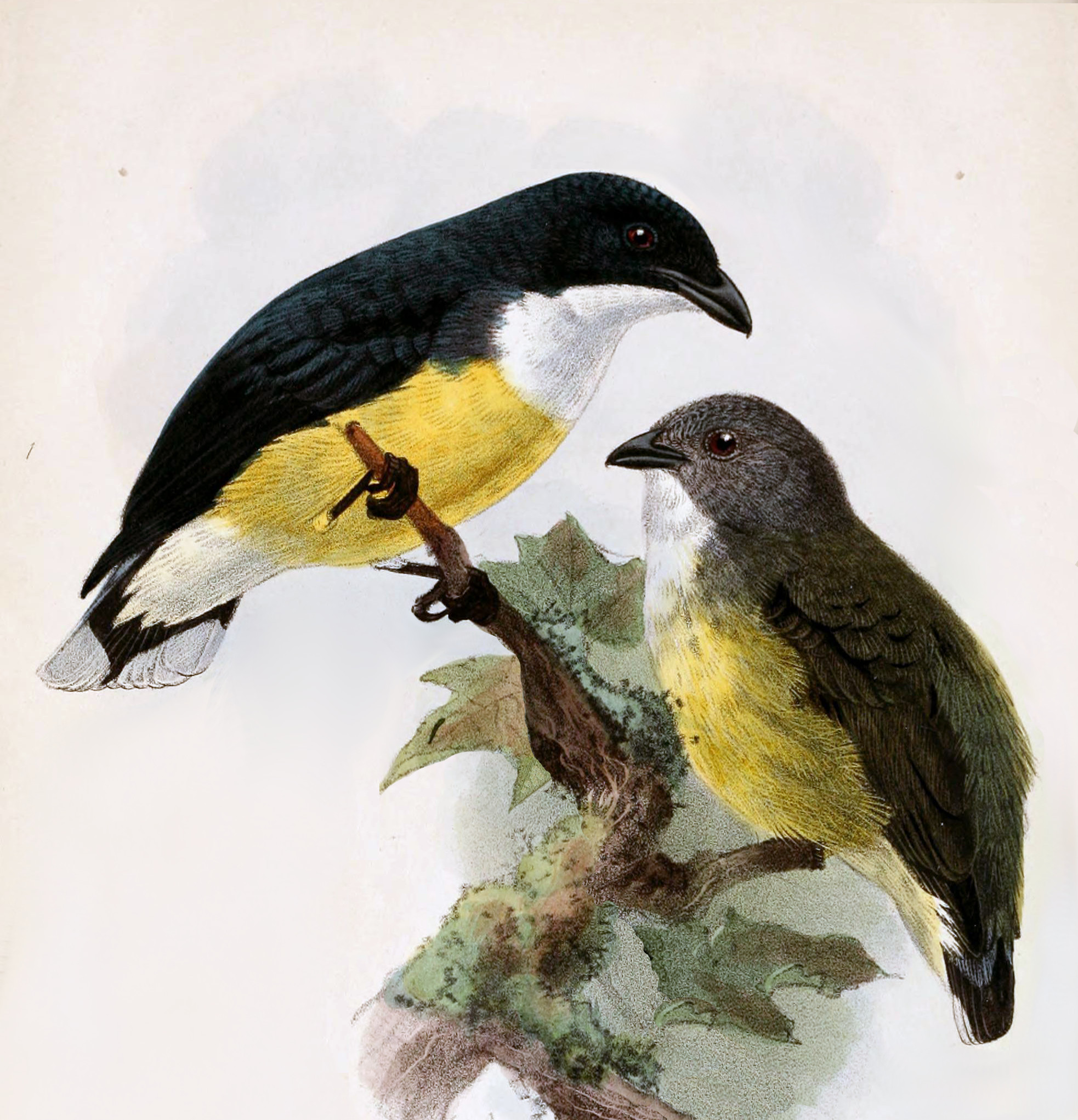 « Prionochilus vincens » = Dicaeum vincens (Legge's Flowerpecker) - male and female